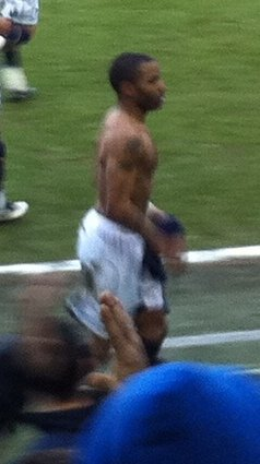 Puncheon scores a hat-trick for Millwall against Crystal Palace